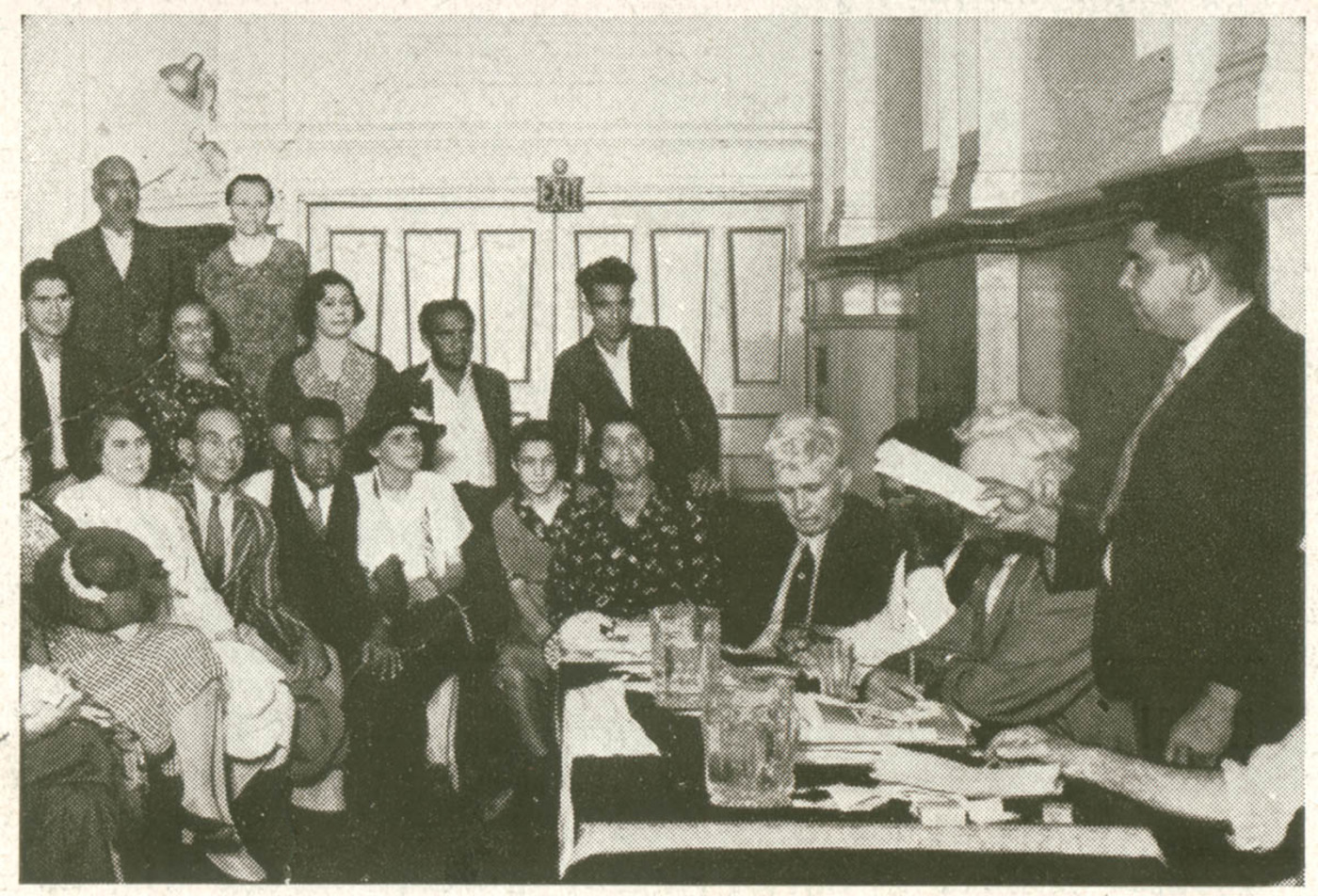 Section of Aboriginal meeting in Australian Hall, Sydney, organised by the Aborigines' Progressive Association mourners. This image is part of the collections of the State Library of NSW and has been used with permission. The State Library’s Flickr Commons channel can be accessed via the following link